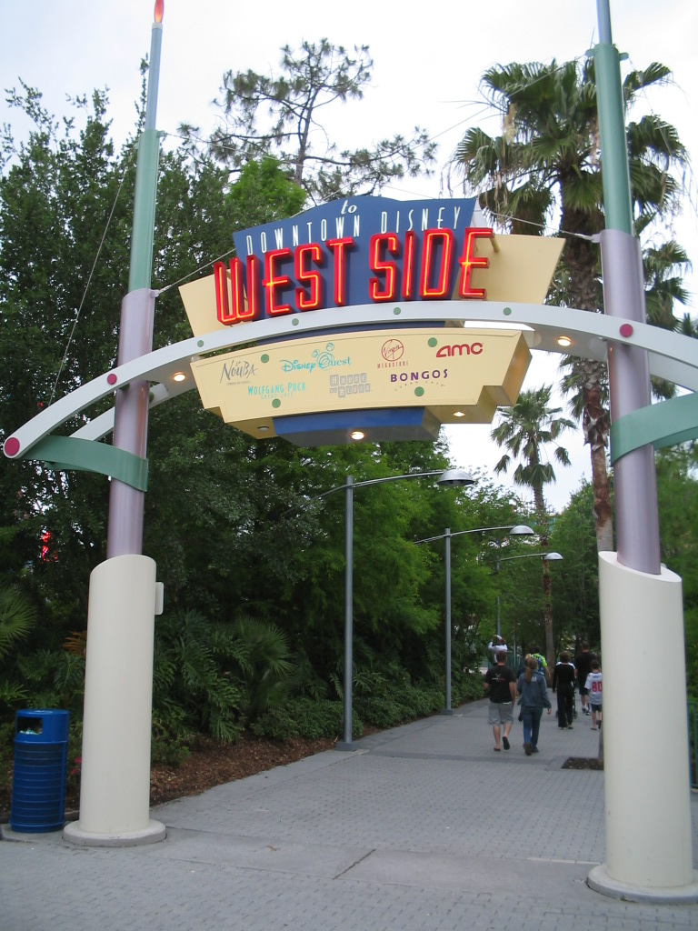 Downtown Disney, Orlando, May 2005